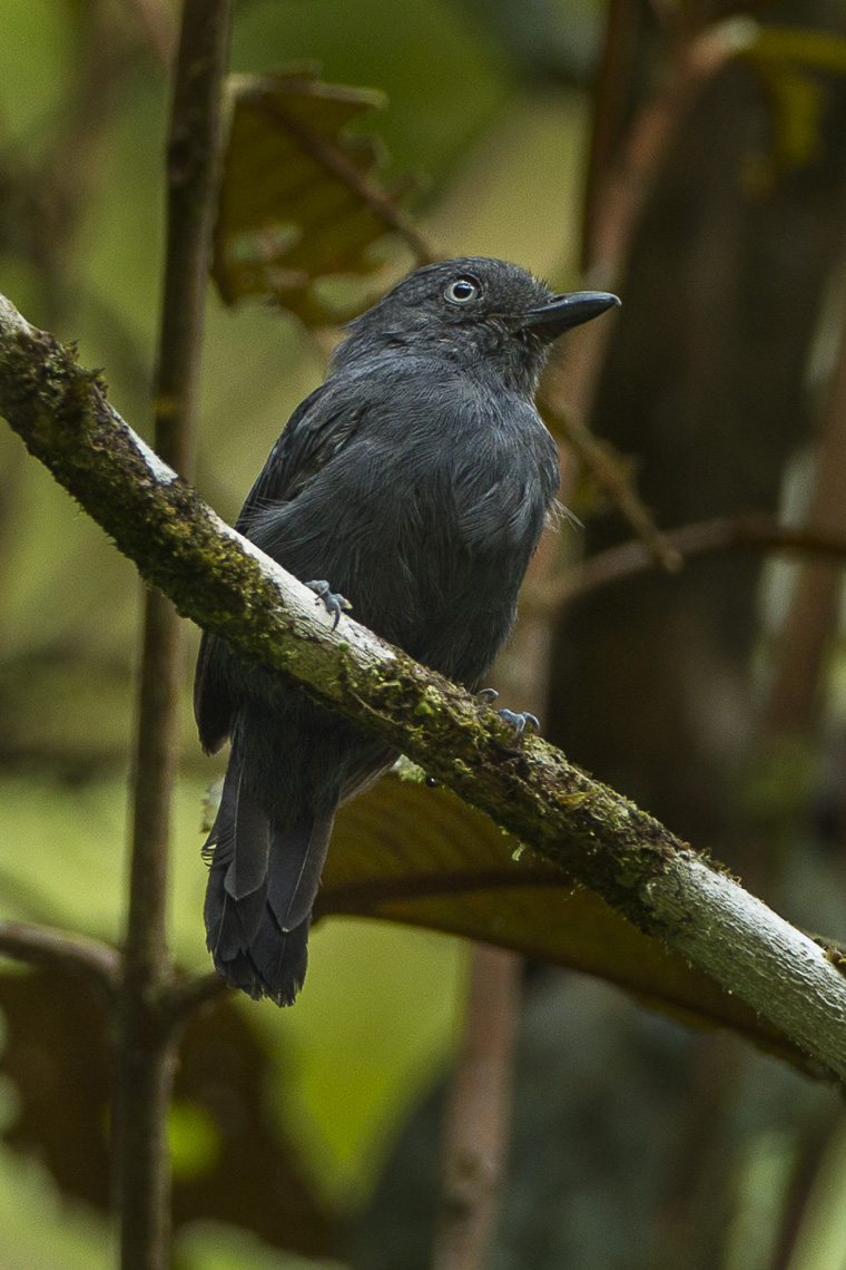 Uniform Antshrike - Colombia_S4E9827